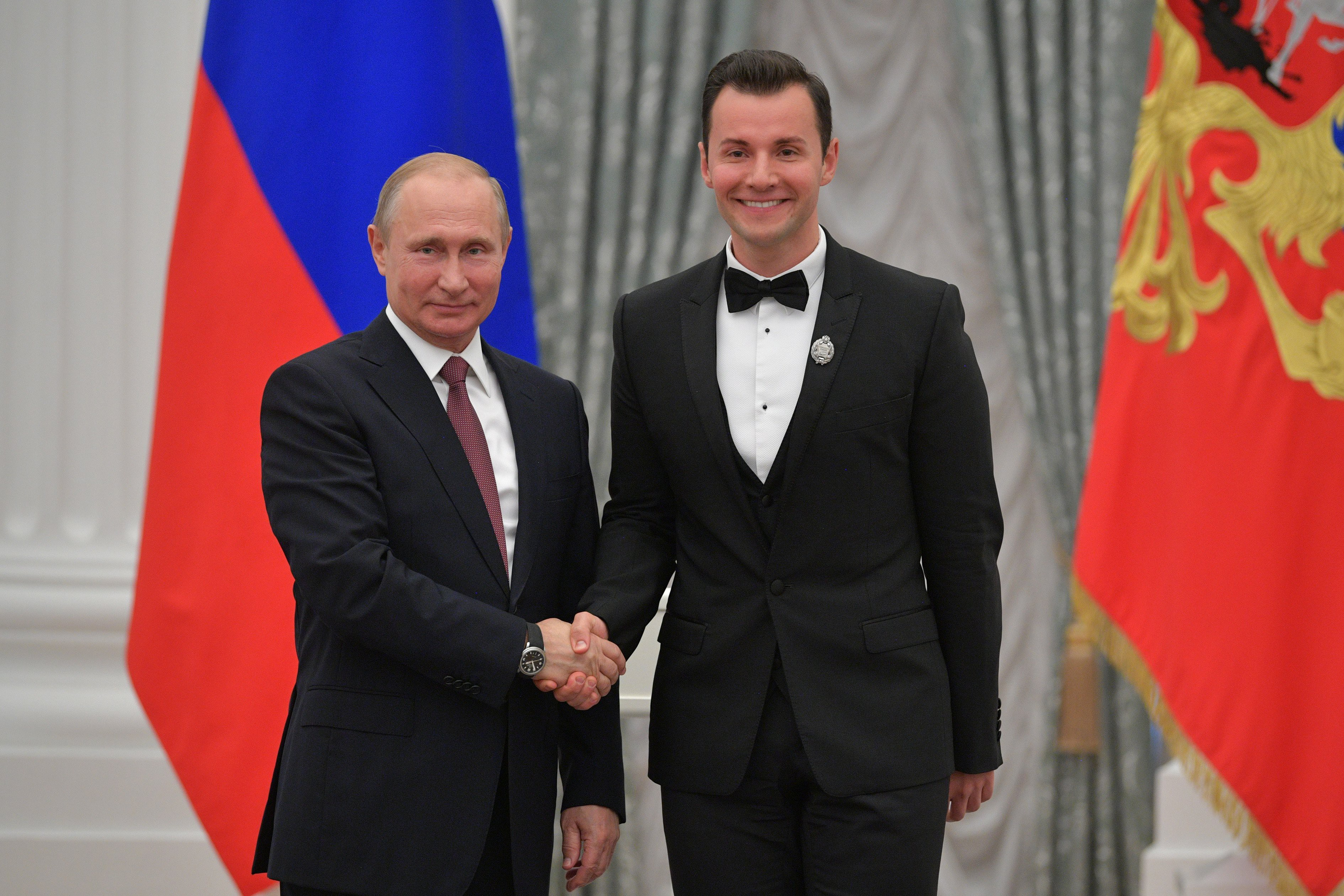 Vladimir Putin and Vyacheslav Manucharov at award ceremonies 27 Jun 2018, Kremlin, Moscow.